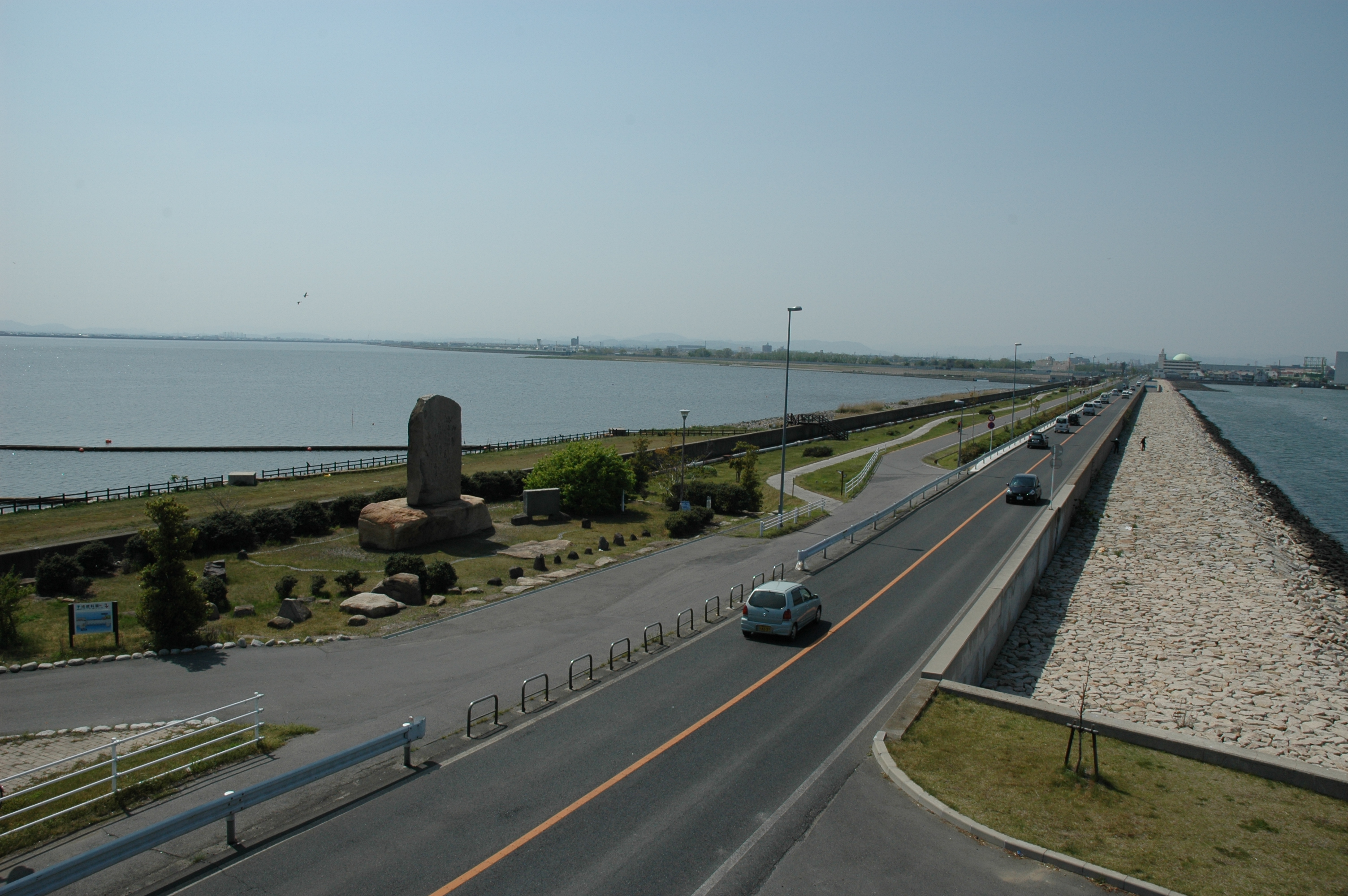 Embankment of Lake Kojima